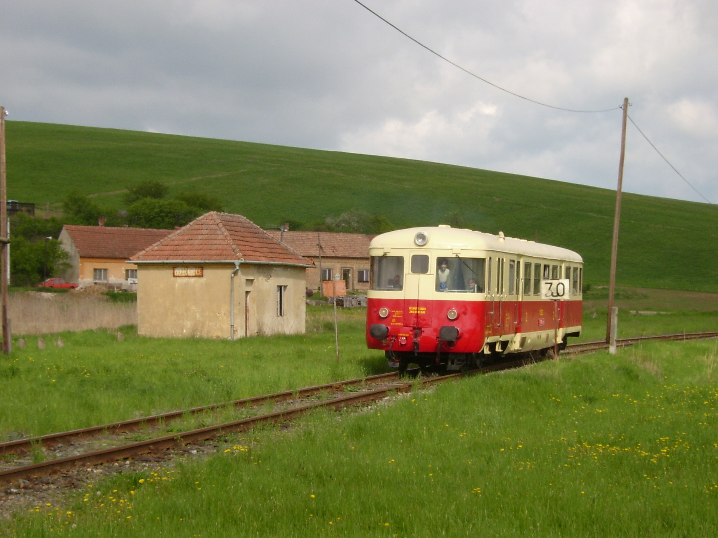 Former train stop in Mouchnice, Czech Republic, on a branch line Nemotice - Koryčany. The line was opened for freight transport in 1908 and was serviced by passenger trains in 1920 - 1980; at present (early 21st century), only freight trains for Koryčany saw mill pass here. The picture shows diesel railcar M240.0113 which stopped here on a railfan tour along disused and freight-only lines of Southern Moravia.